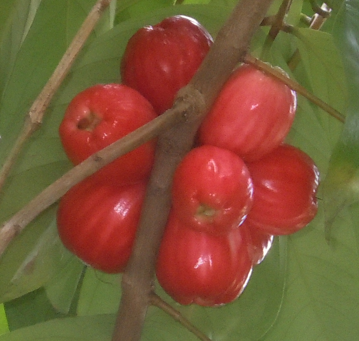 Pommerac-trinidad